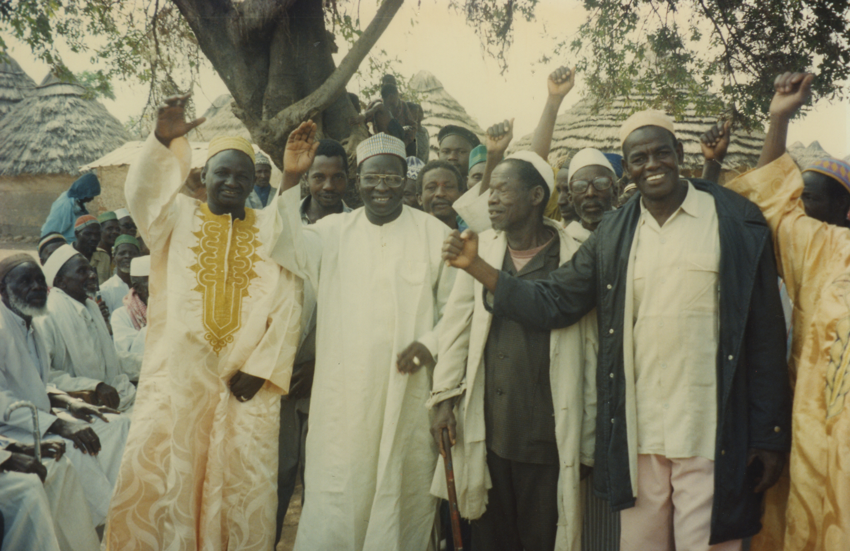 Sékou Koureissy Condé visiting his village Ballan